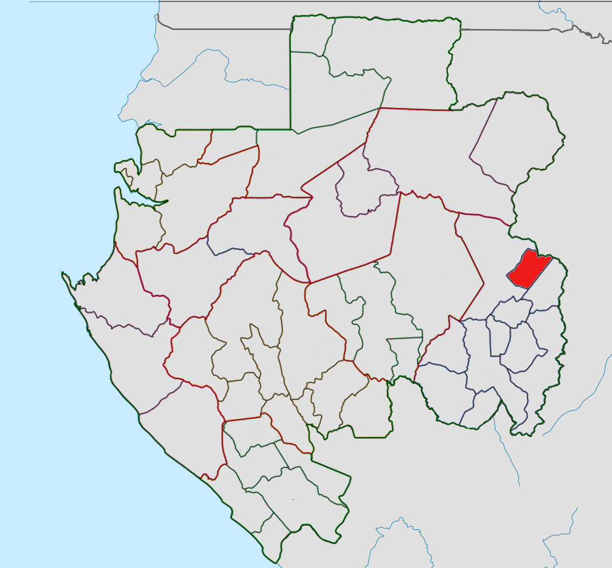 map of bayi-brikolo